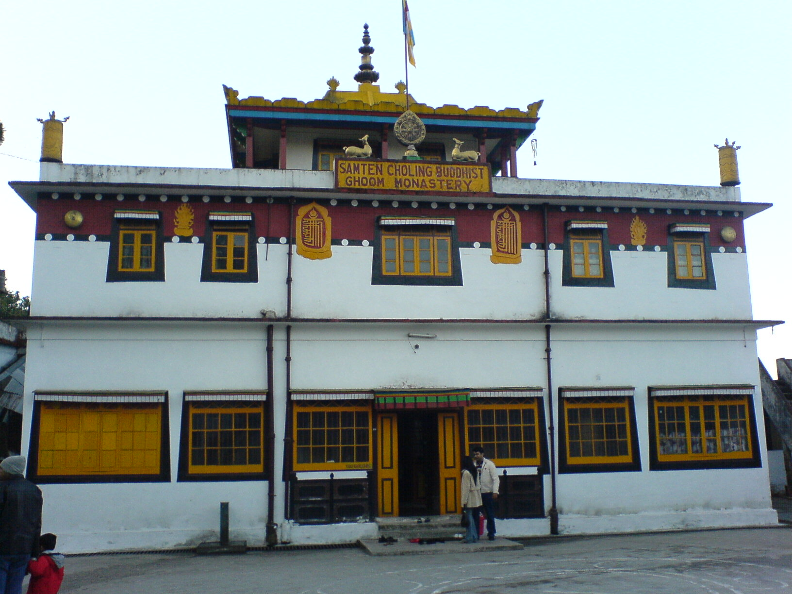 Ghoom monastery.